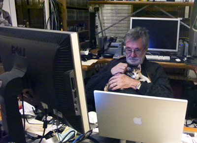 Pedro Meyer at his studio in Coyoacán.